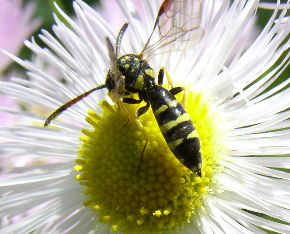 Wasp, Sapyga centrata. Size: +/- 10 mm. Willow Grove, Montgomery County, Pennsylvania, USA.